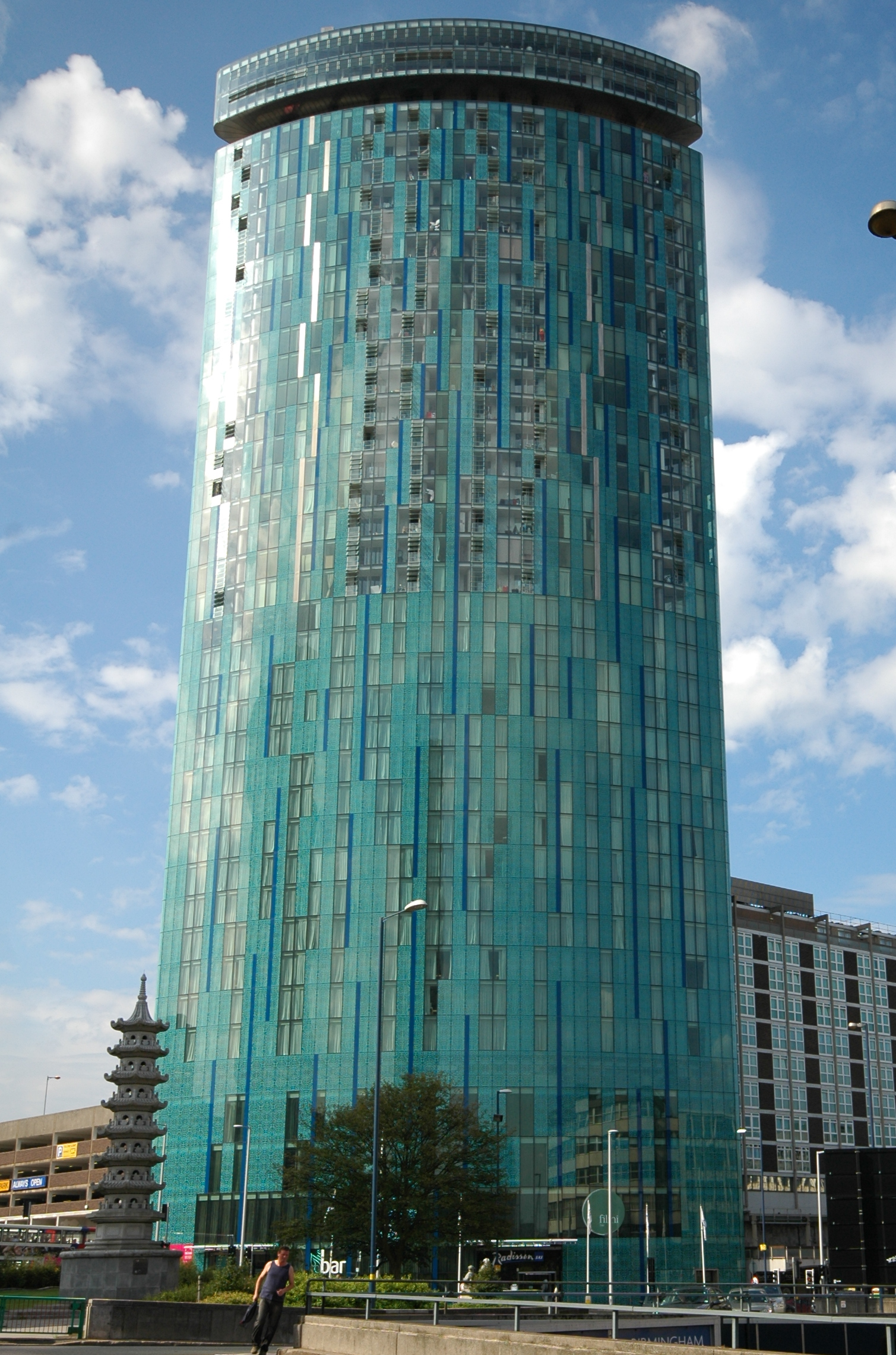 This is a frontal view of Holloway Circus Tower in Birmingham, designed by Ian Simpson and completed in 2006.